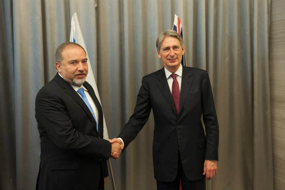 During his visit to the Middle East, Foreign Secretary Philip Hammond met his Israeli counterpart Avigdor Lieberman.